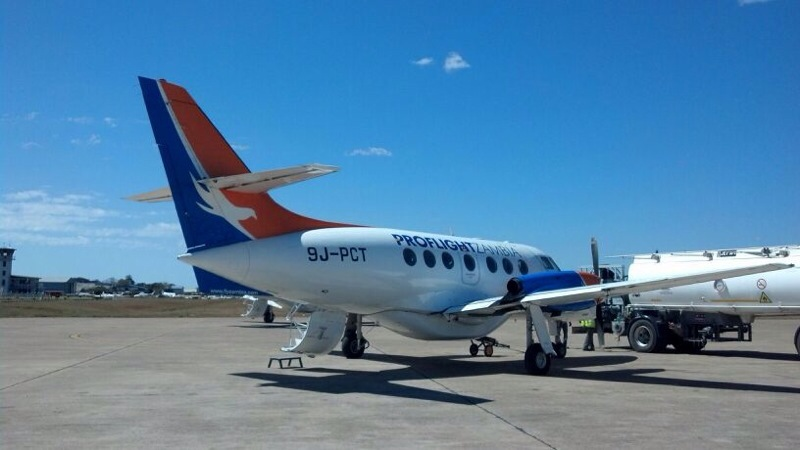 Proflight Zambia Jetstream 32 (9J-PCT) at Harry Mwanga Nkumbula International Airport, Livingstone.